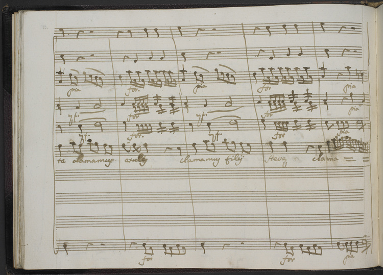 A handwritten page from the manuscript score of Salve regina, possibly written in the author's own hand. Held and digitised by the British Library.